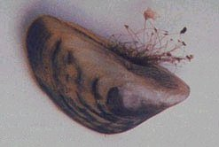 Zebra Mussel From a USA government website that doesn't have a proclaimed copyright restriction: (Department of the Interior)